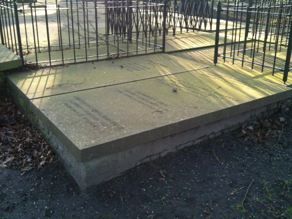 Graveyard Groenesteeg, Leiden (The Netherlands). Grave of Christiaan Snouck Hurgronje (1857-1936).